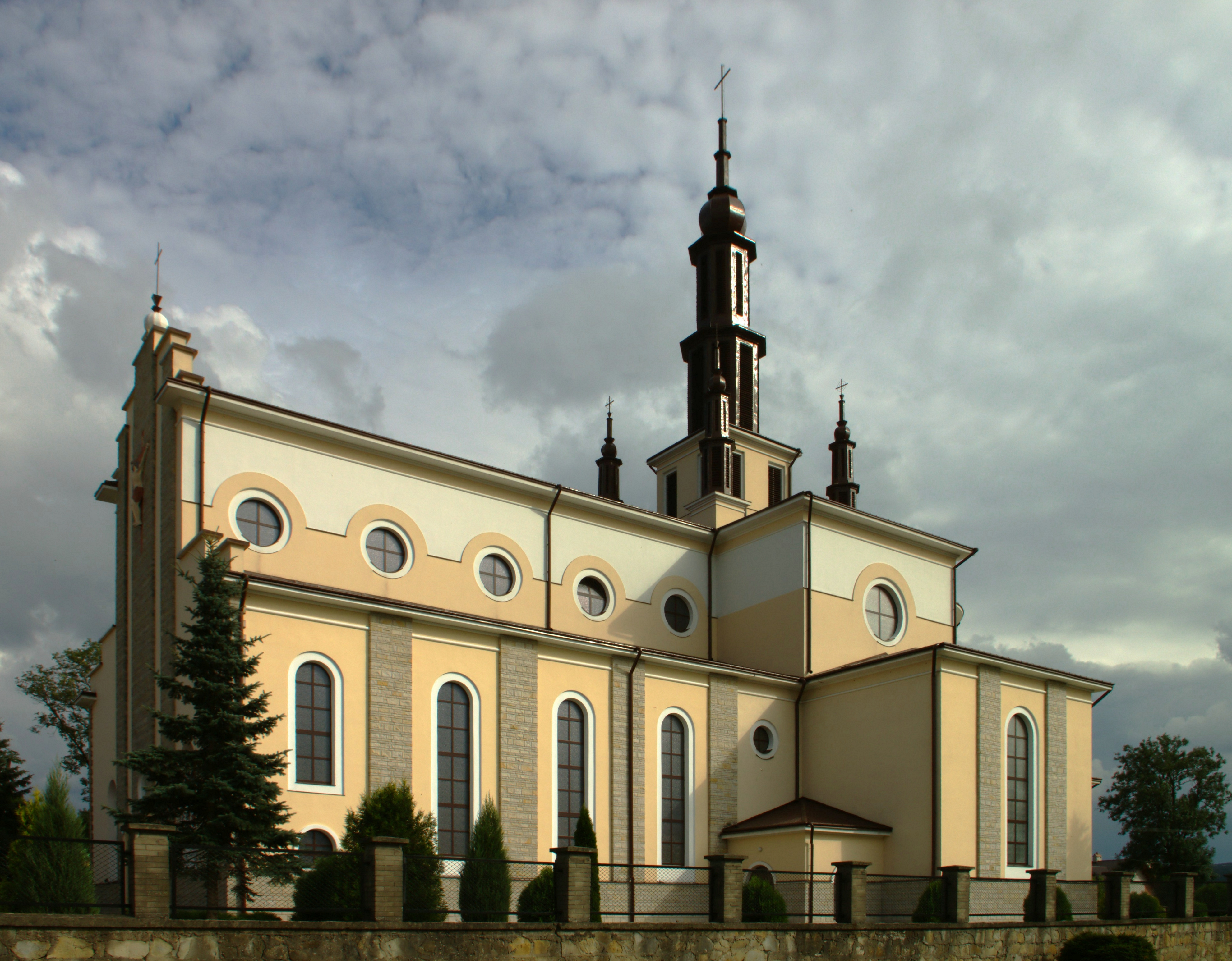 Main church in Dubiecko, Podkarpackie voivodeship, Poland